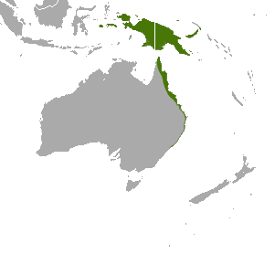 Common Blossom Bat (Syconycteris australis) range